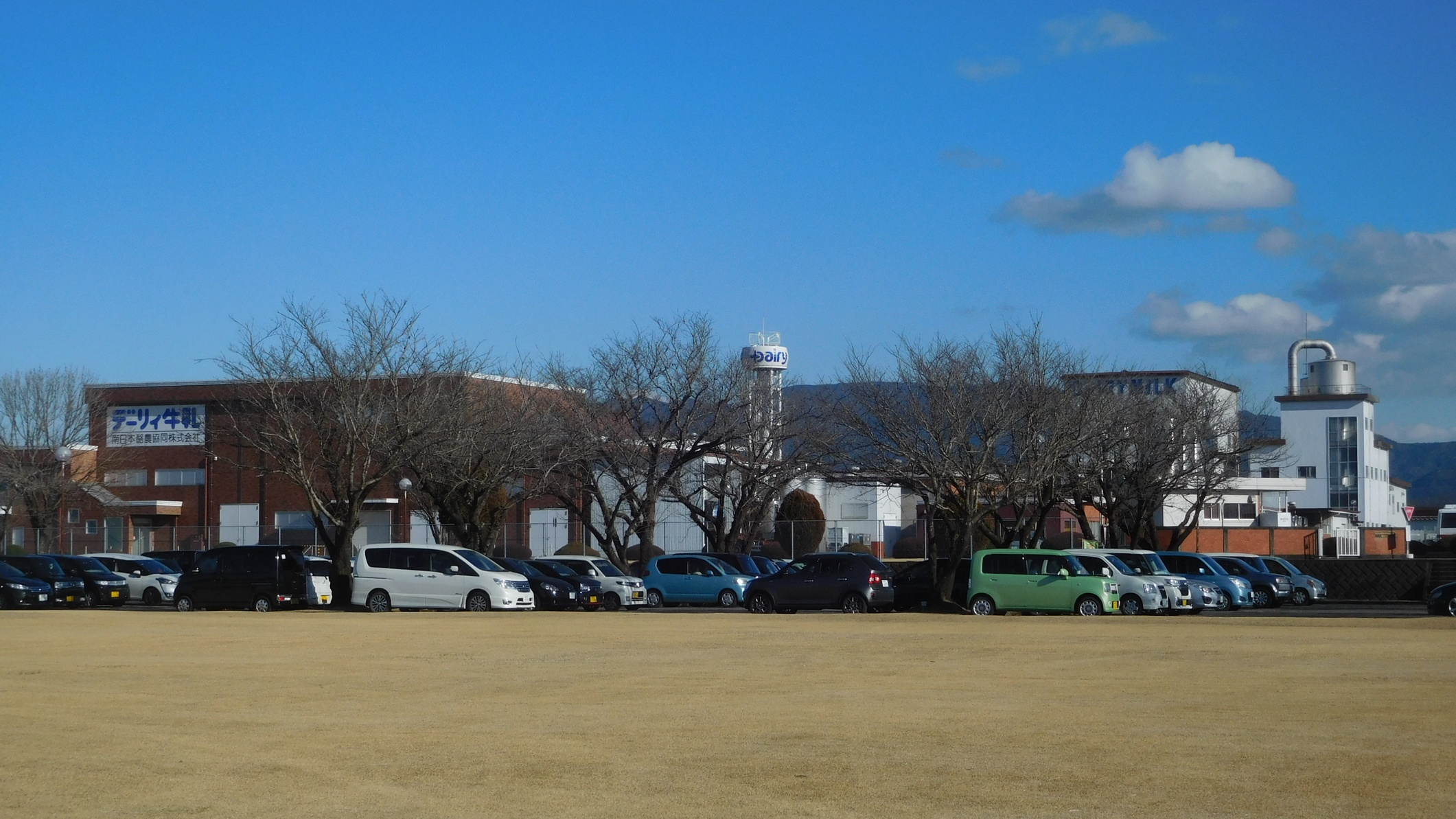 Minami Nihon Rakuno Kyodo (Dairy Company) - Miyakonojo Factory (Miyakonojo City, Miyazaki Prefecture, Japan)